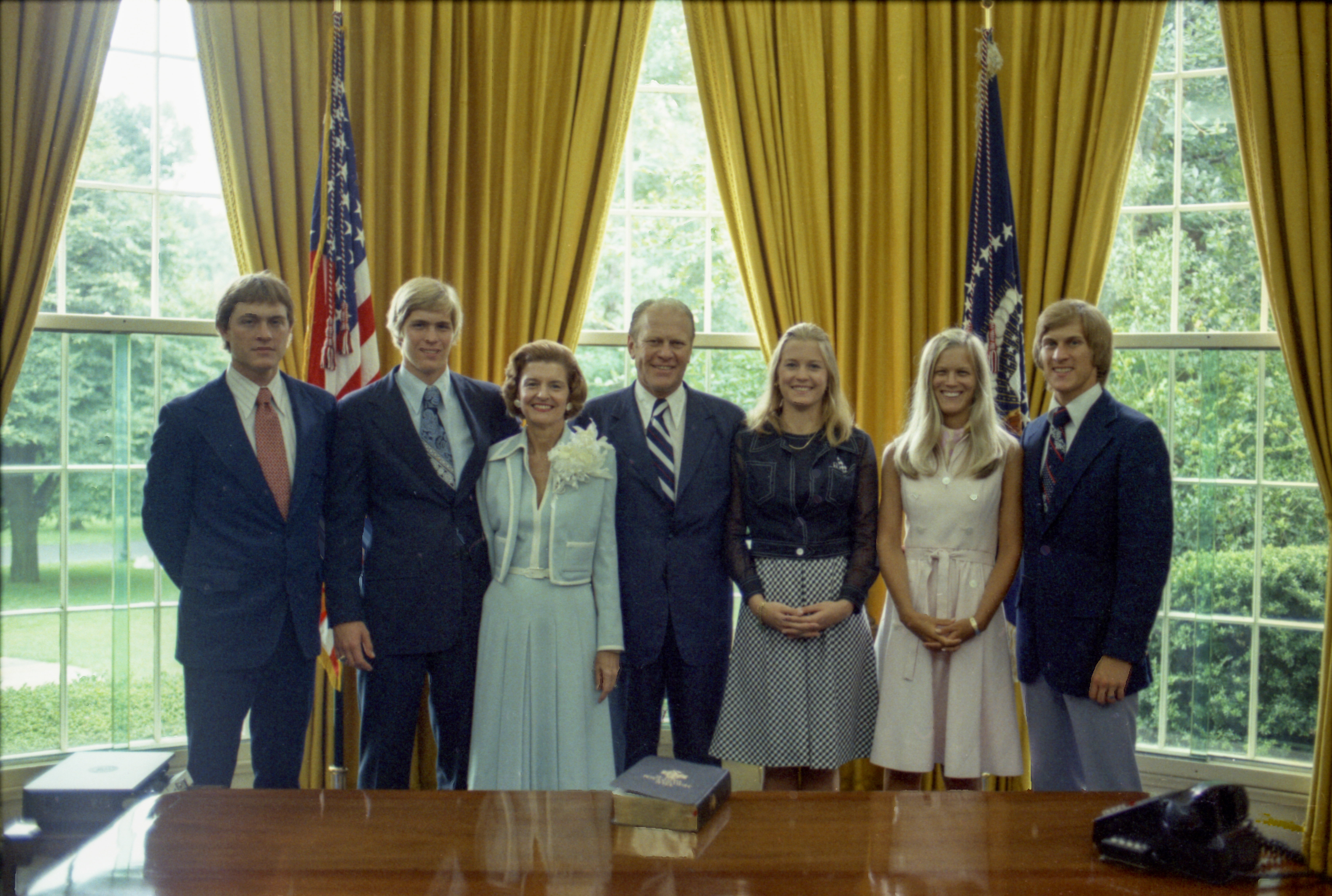 The Ford Family in the Oval Office prior to the swearing-in of Gerald R. Ford as President. August 9, 1974. (left to right) Jack, Steve, Betty, President Ford, Susan, Gayle (wife of Mike), and Mike.